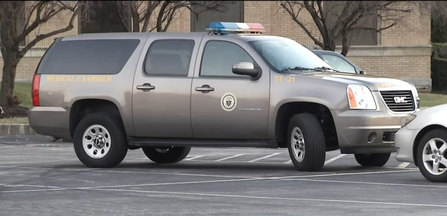 Delaware County Medical Examiner Vehicle